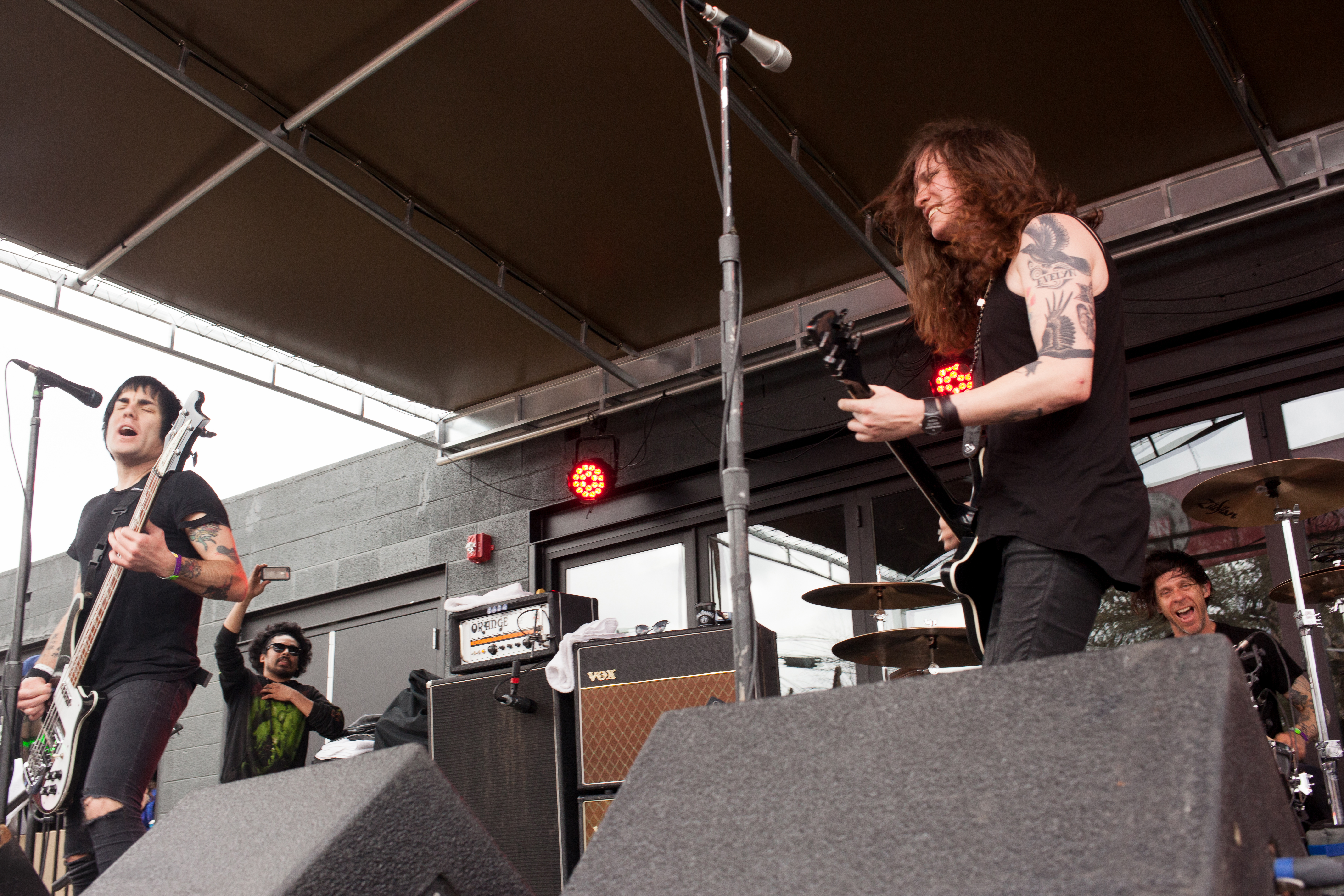 Against Me! at SPIN party at Stubb's SXSW 2014--60.jpg